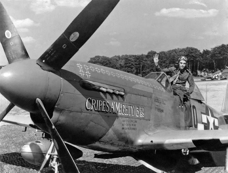 Major George E. Preddy and his P-51D Mustang 'Cripes A' Mighty 3rd'